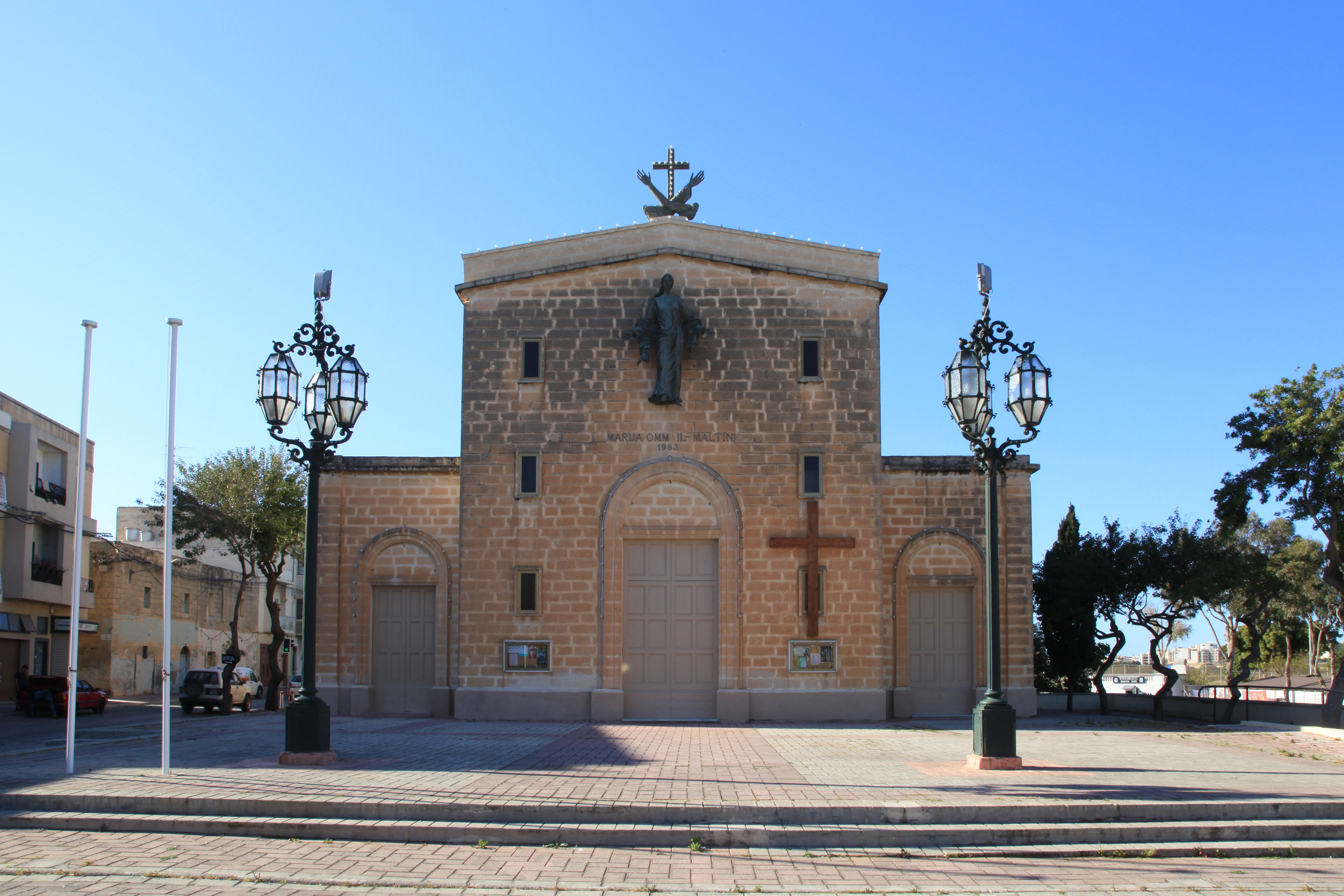 Immaculate Heart of Mary Parish Church at Misraħ Burmarrad between Triq Burmarrad and Triq Toni Camilleri in St. Paul's Bay, Malta